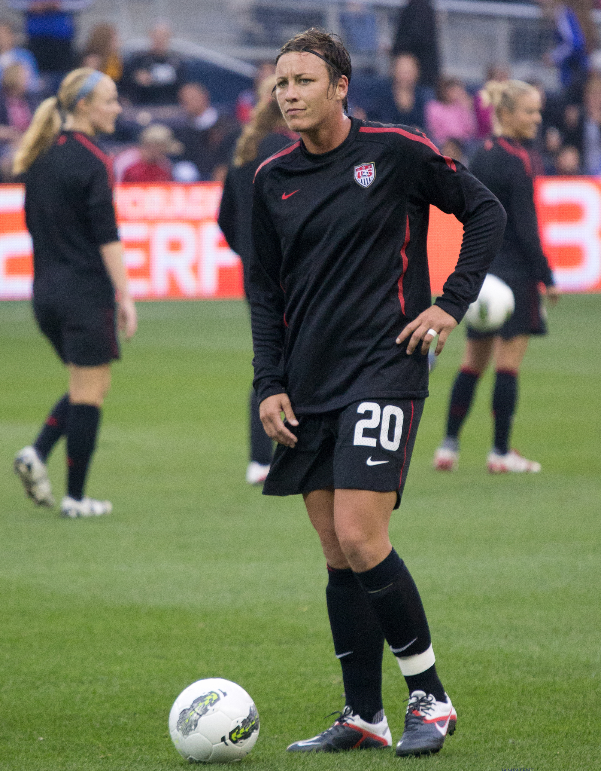 Abby Wambach of the United States Women's National Soccer team warming up prior to a friendly match against Canada on September 17th, 2011.